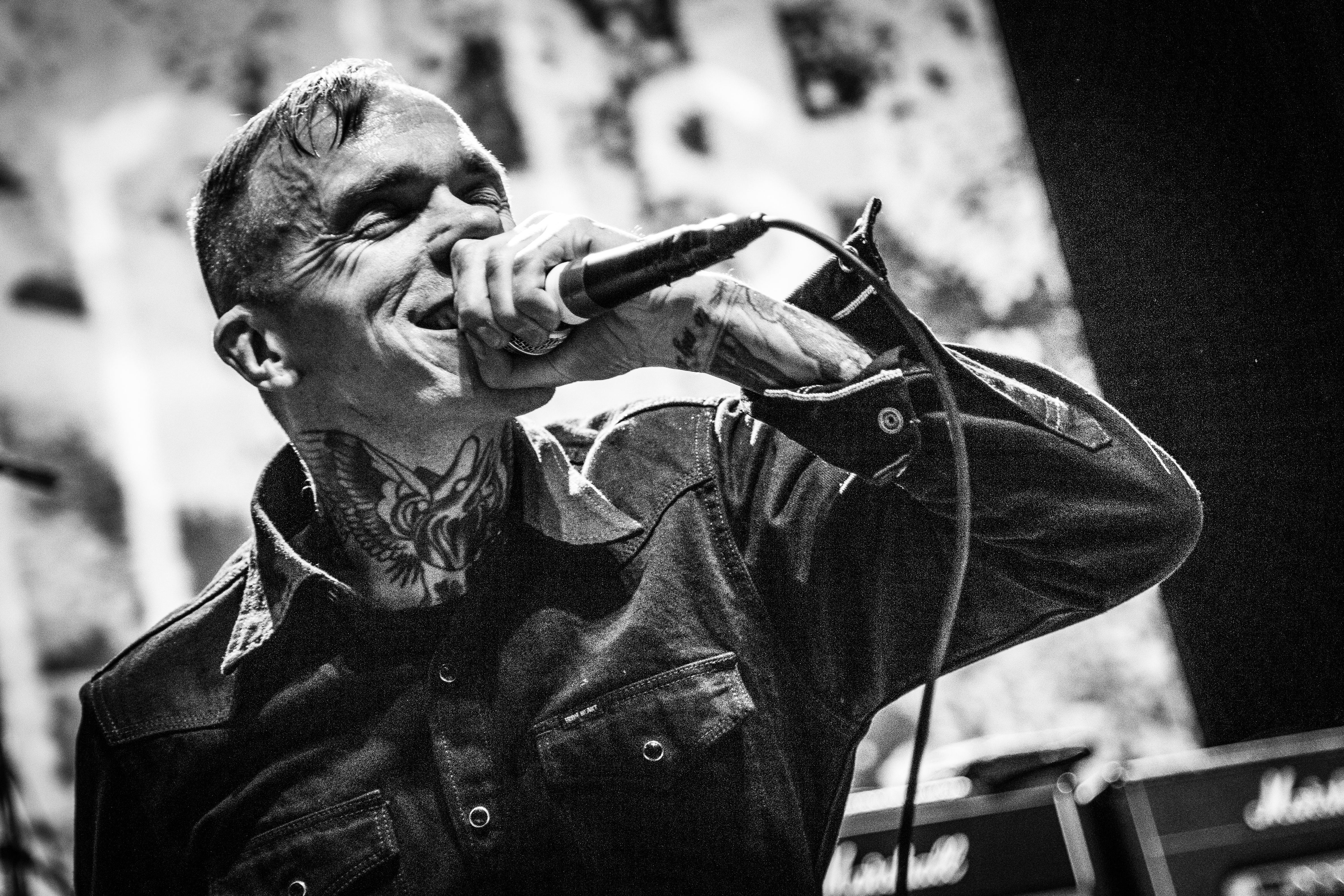 Converge performing live at Roadburn Festival 2018